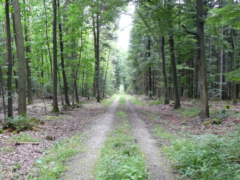 Forest road in the Virngrund region, near Ellwangen